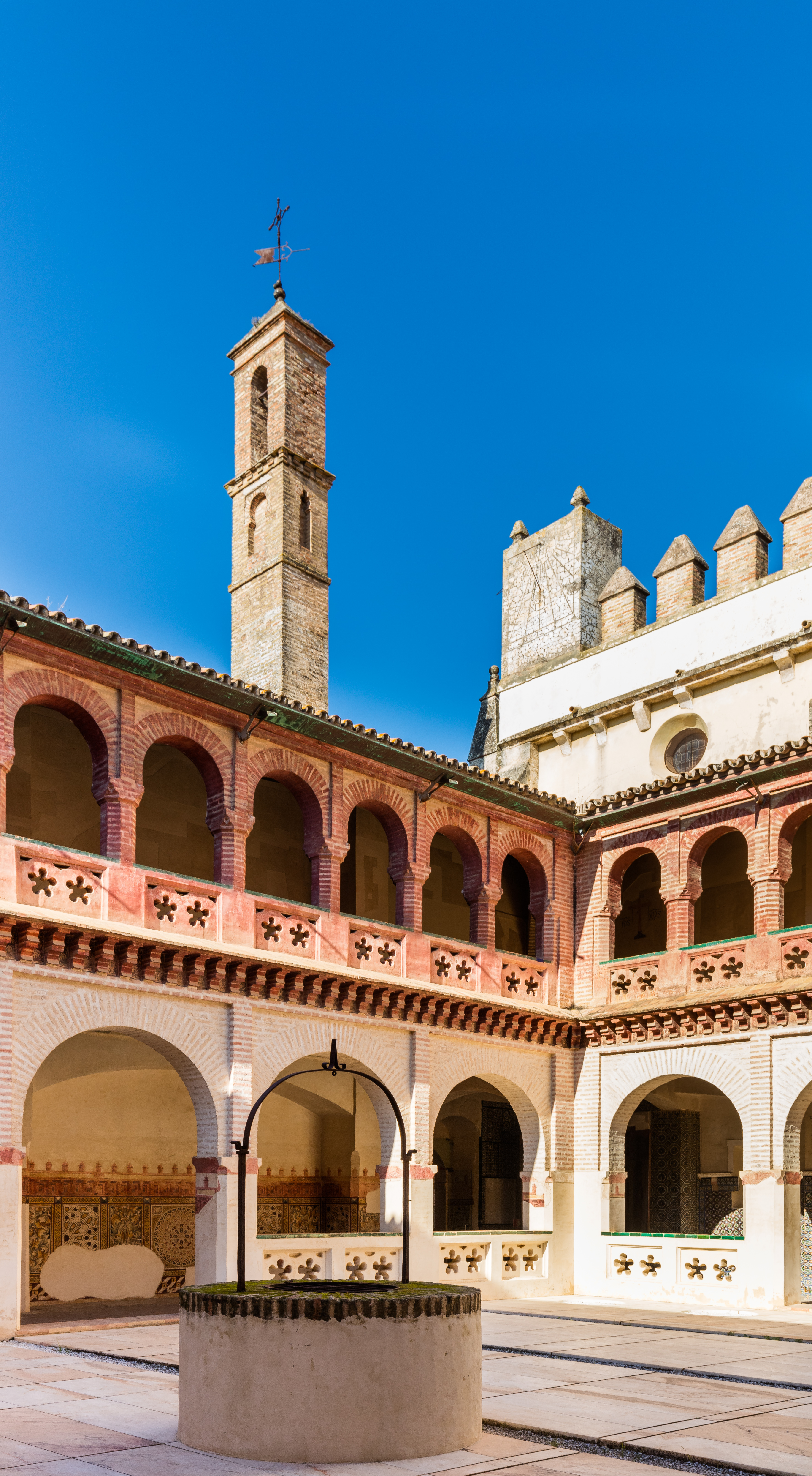 Monastery of San Isidoro del Campo, Santiponce, Seville, Spain